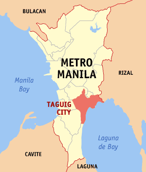 Locator map of Manila in Taguig City, Philippines.